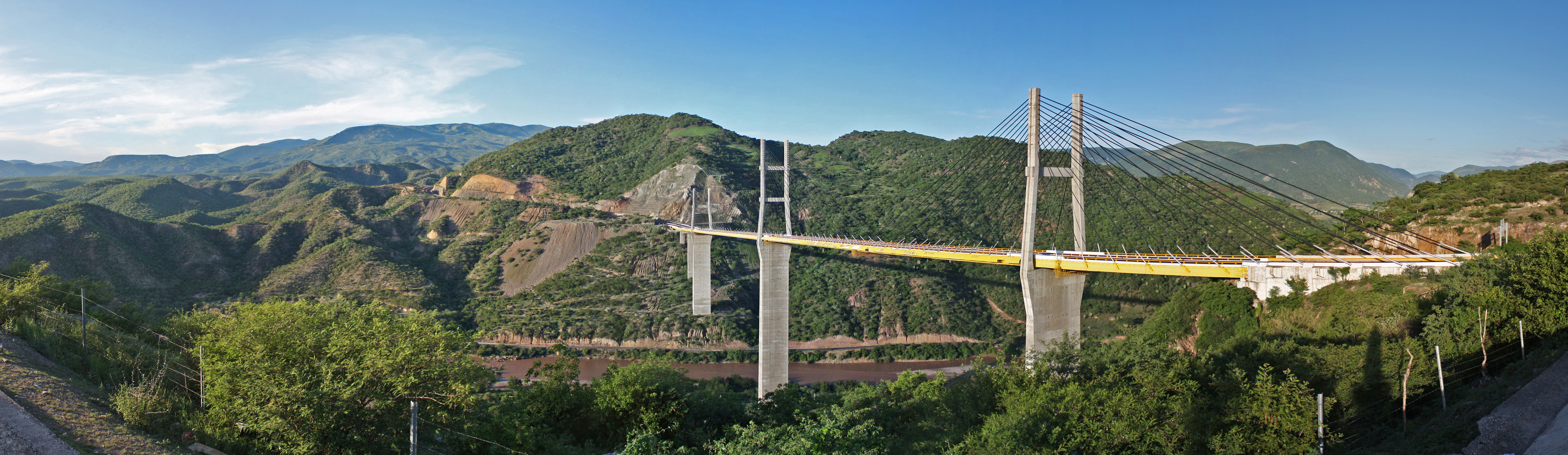 Panoramic view of the Mezcala Bridge on Highway 95D in Mexico